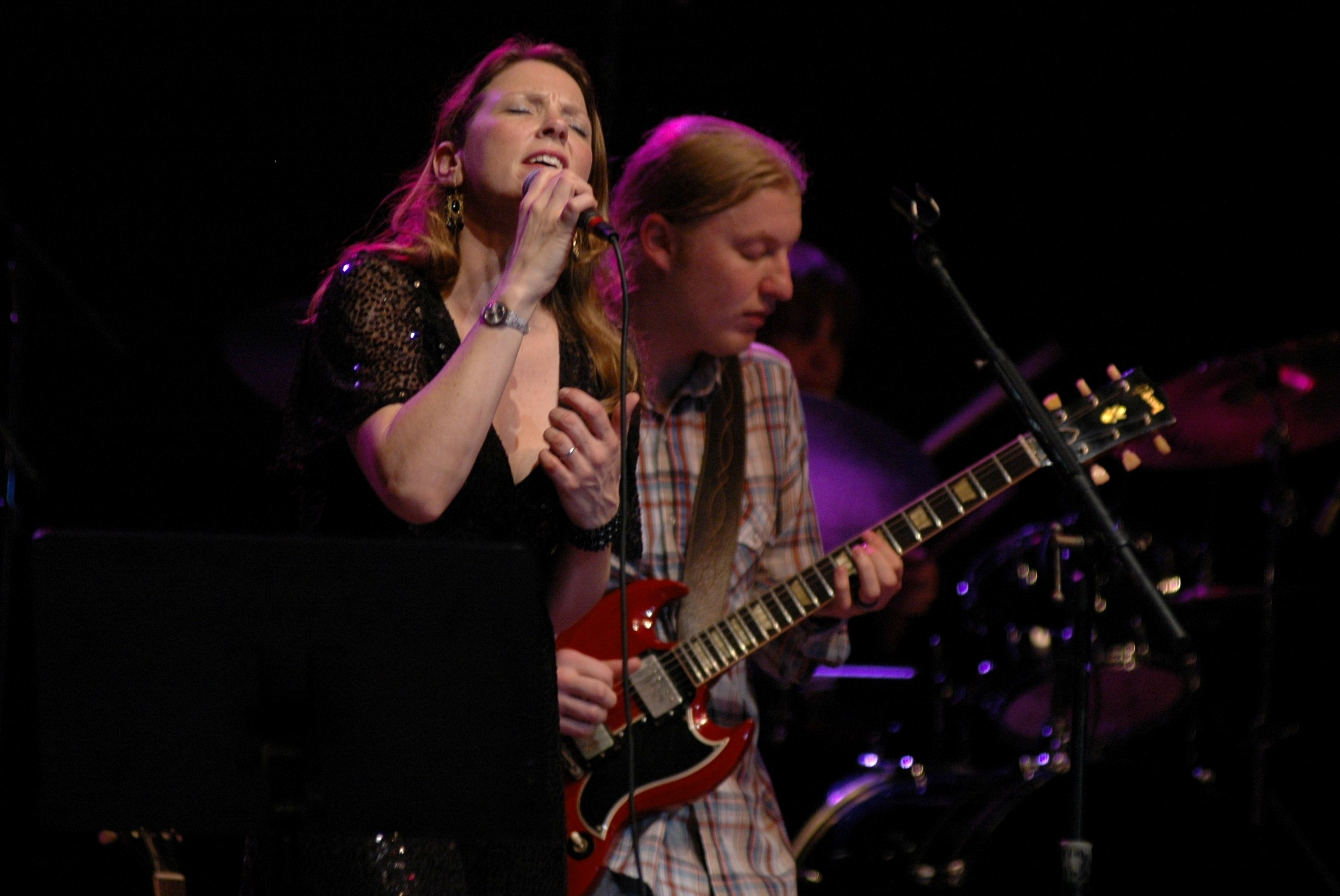 Soul Stew Revival at Mizner Park. 12/28/07.